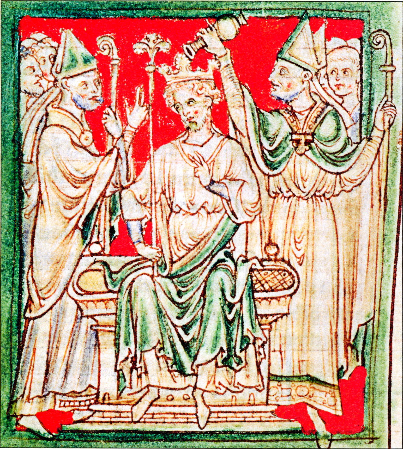 Richard the Lionheart, Richard I of England, being anointed during his coronation in Westminster Abbey.